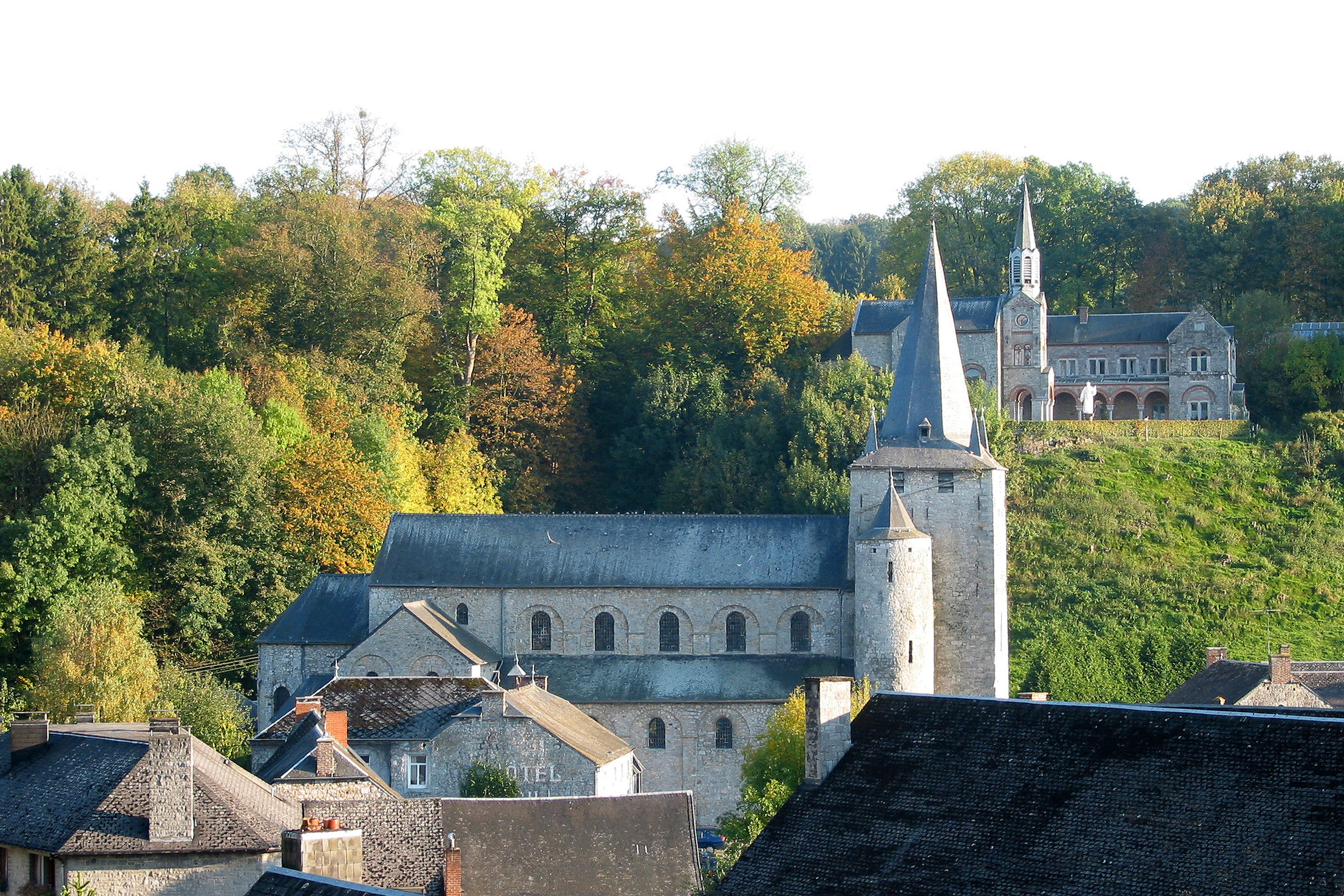 Celles (Namur) (Belgium), the area of the previous St. Hadelin collegiate church (XIth century) and the St. Hadelin hermitage chapel.